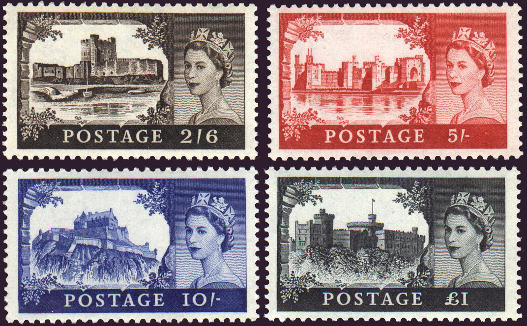 Castle series postage stamps of Great Britain issued in 1955; 2/6, 5/-, 10/- and £1 denominations